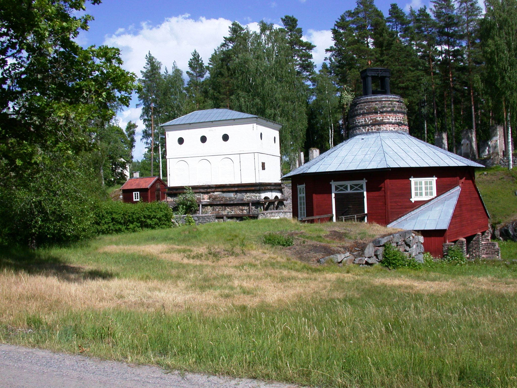 The blast-furnace (left) and furnace (right) at Bennebol iron mill, Uppsala, Sweden